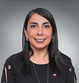 Foto oficial de Karla Rubilar como Ministra